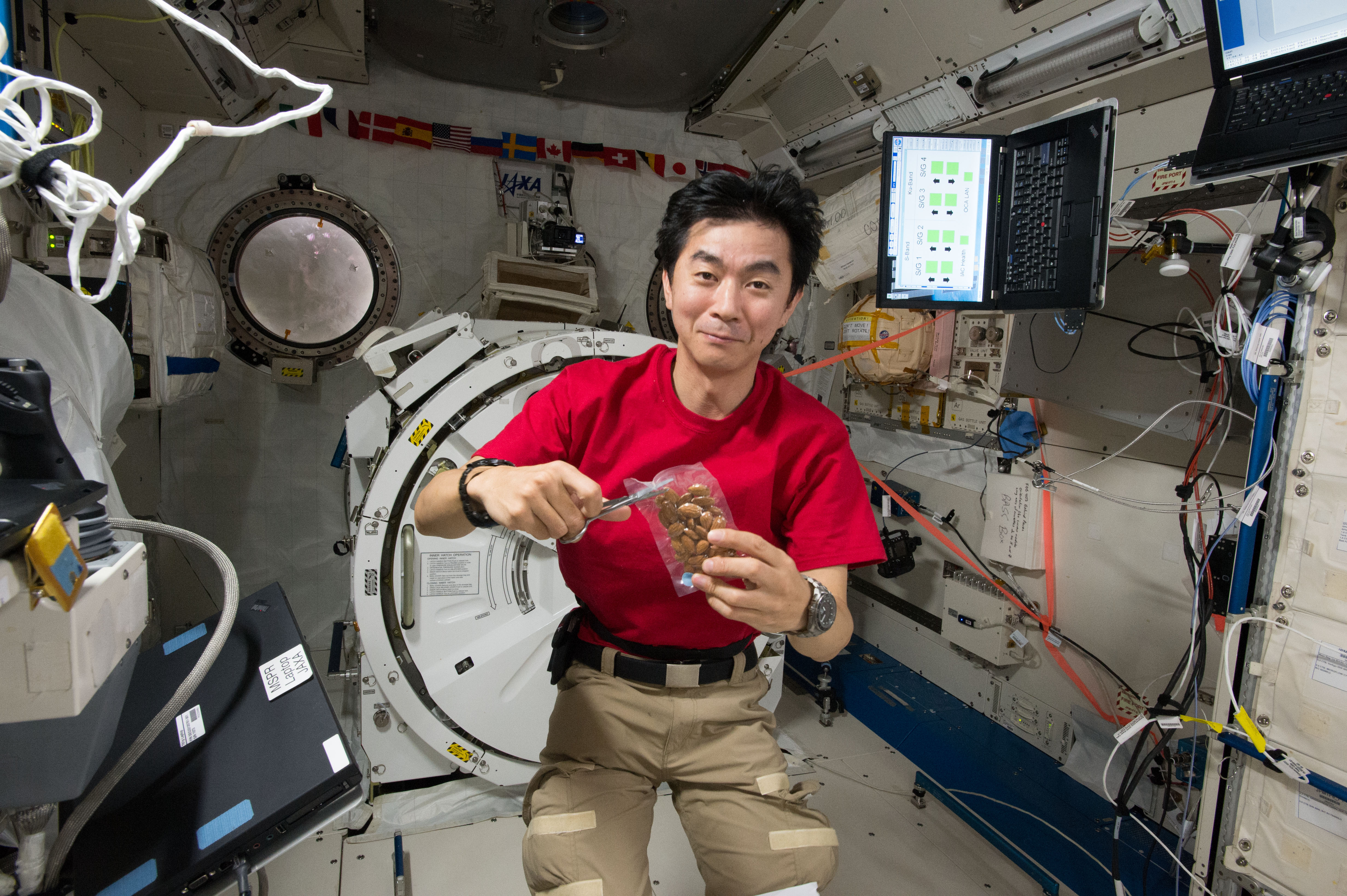 JAXA astronaut Kimiya Yui iss seen with a packet of almonds while floating inside of the Japanese Experiment Module.